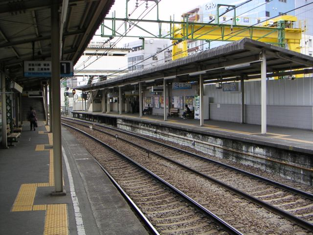 Keikyu Kita Shinagawa station platforms